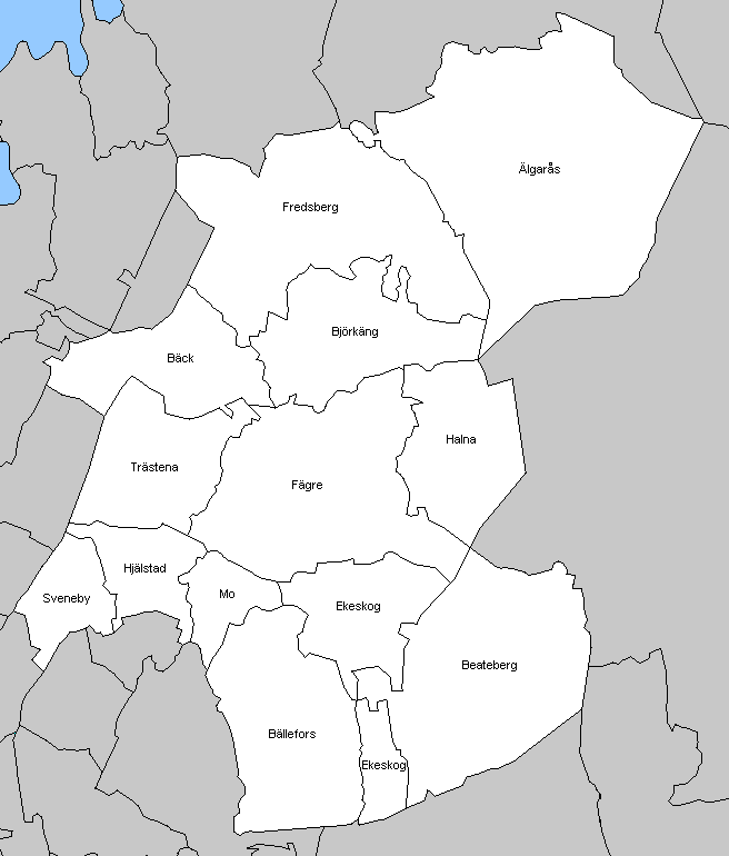 Parishes in Töreboda municipality, Sweden.